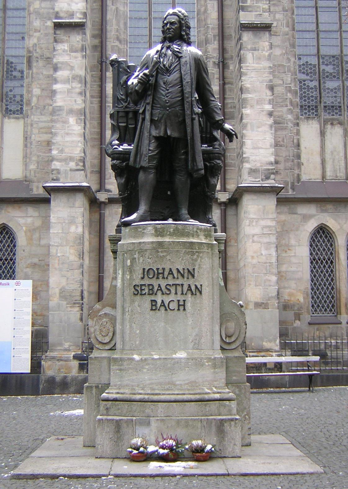 This image has been taken by Wikipedia-ce in late december of 2005 and is public domain. It shows the J.S. Bach memorial in front of the church St. Thomas in Leipzig, Germany.